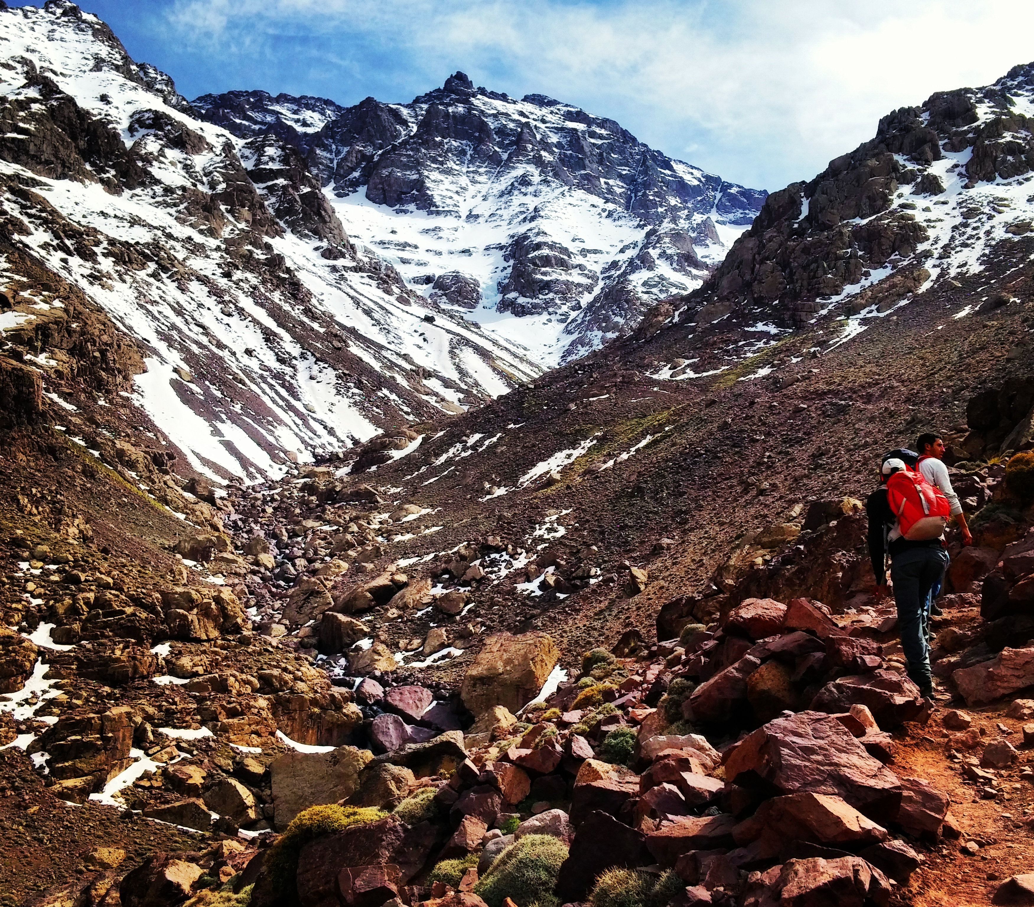 Hikers midway to the summit